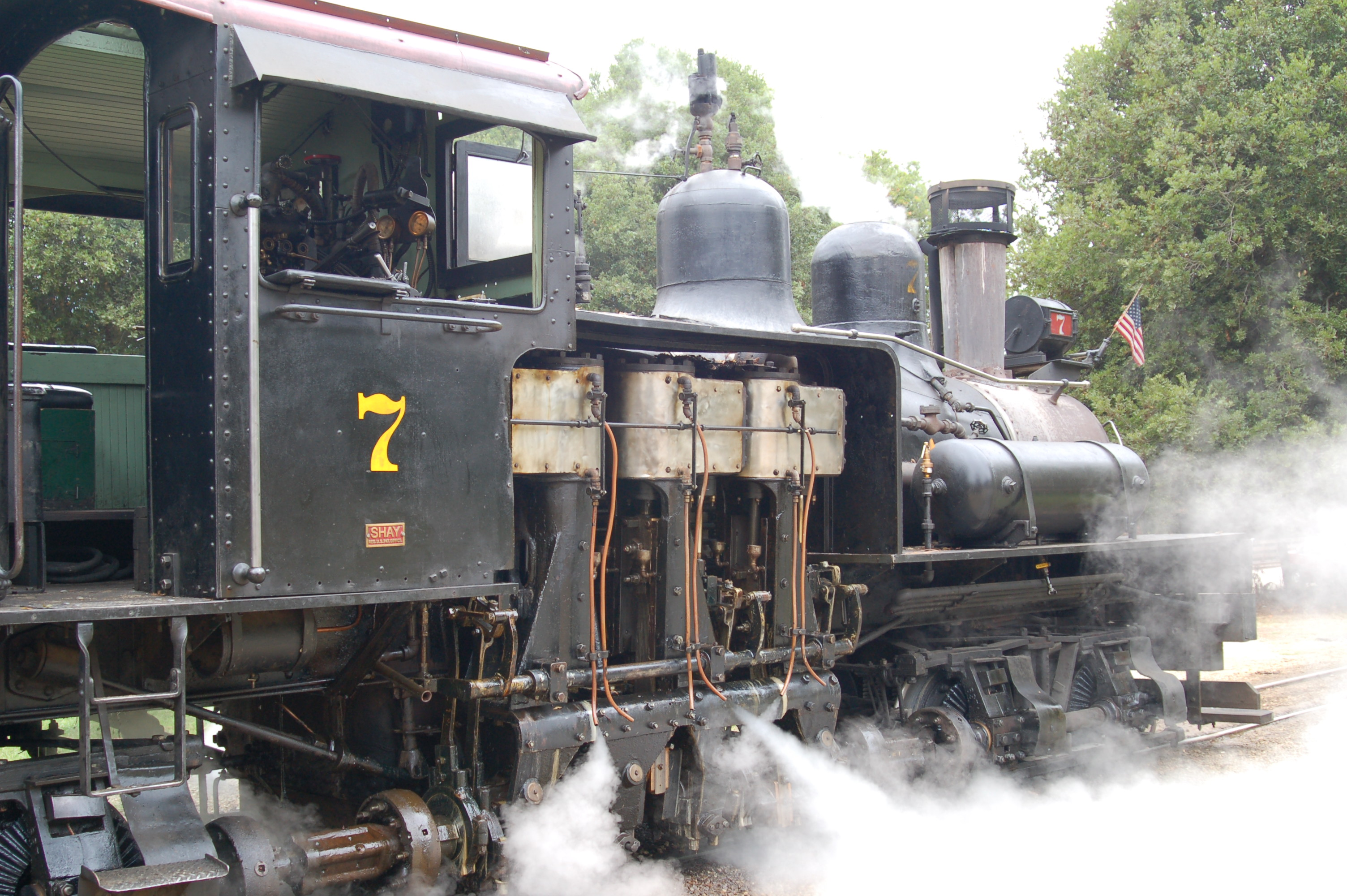 Shay locomotive Sonora from Roaring Camp and Big Trees Narrow Gauge Railroad, Felton, California. Class C Taken on October 6, 2006 while on honeymoon in Santa Cruz, CA USA. Size: 3008px W x 2000 px H Camera: Nikon D50 28mm F5 1/100sec